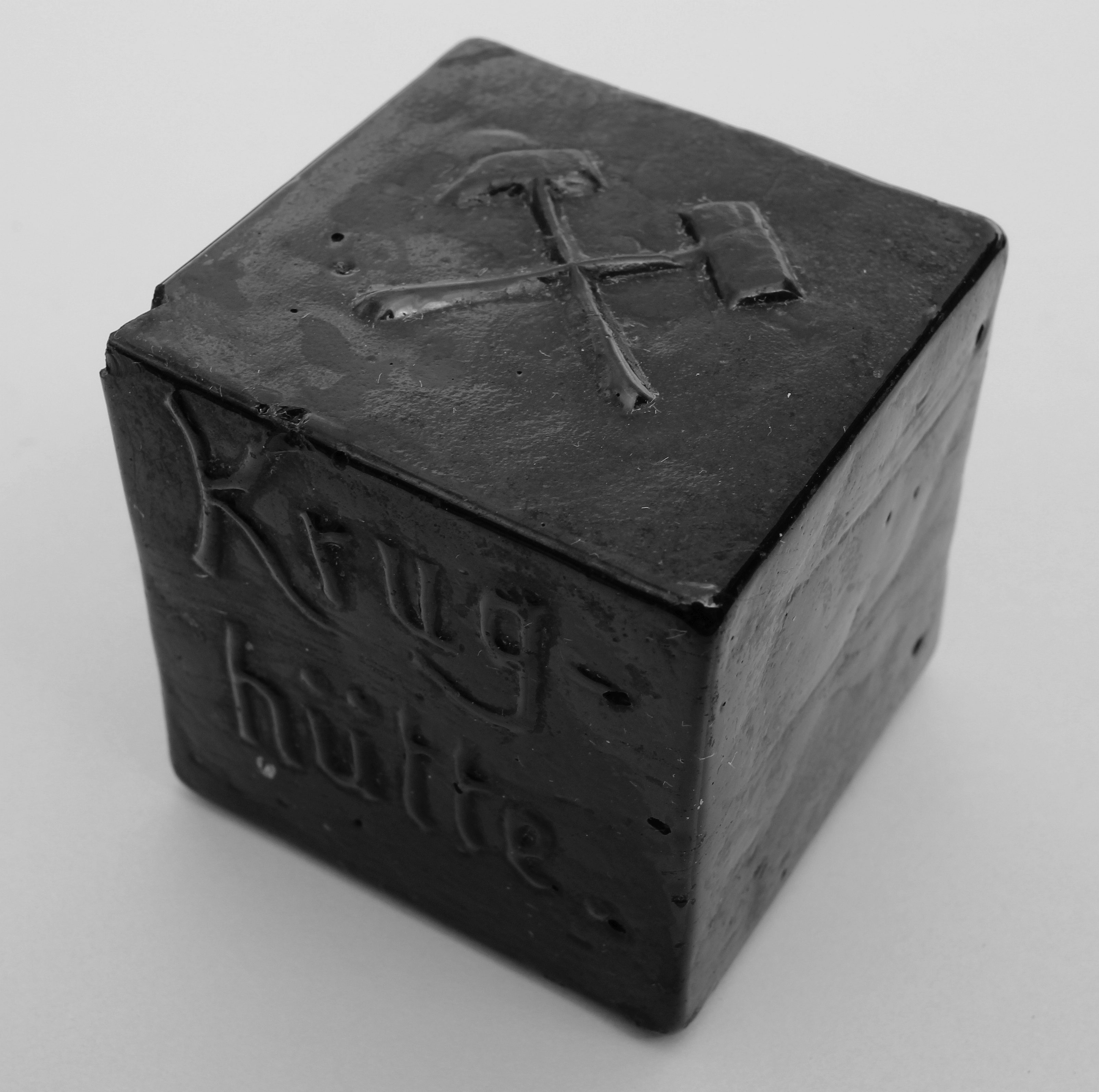 Mansfeld copper slag stone as a souvenir of the smeltery "Krughütte" in Eisleben. Edge length 4.6 cm.